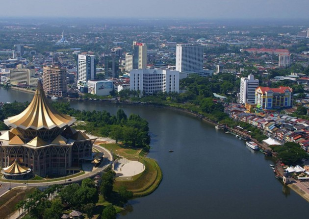 The Sarawak River flowing through the Kuching city centre.